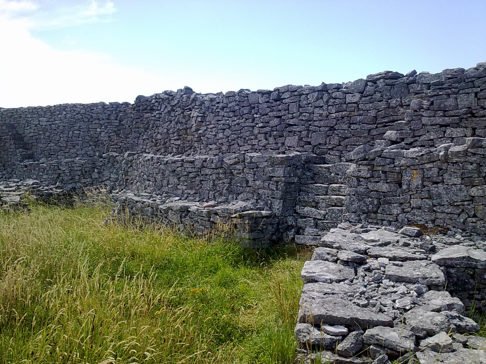 Dún Chonchúir, Inishmaan, Aran Islands.